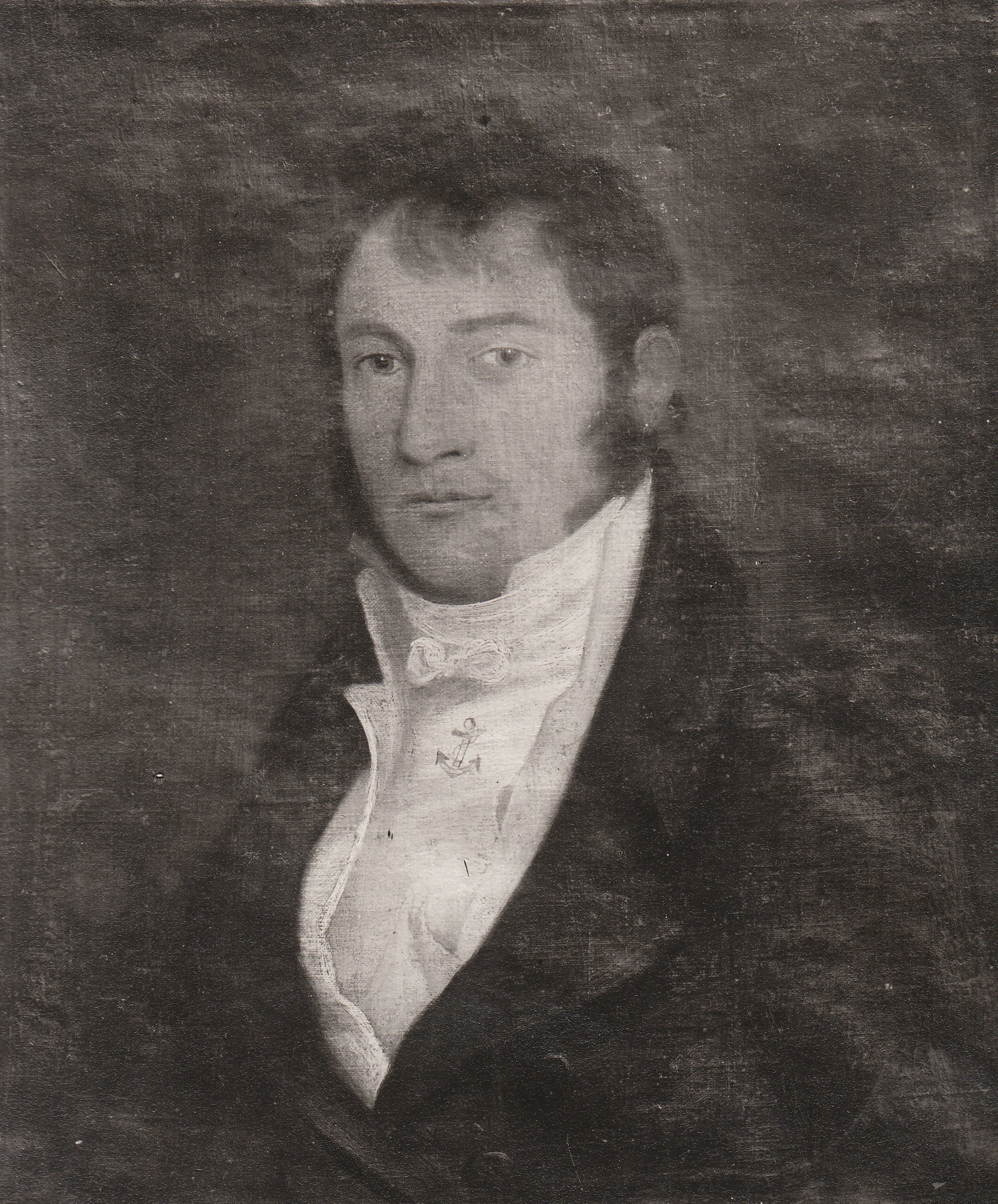 Painting of Paul Andreas Kaald photographed by Erik Olsen in 1897 in connection with the exhibition Trondhjems 900-årsjubileum. Paul Andreas Kaald was one of the most successful Norwegian privateers during the Napoleonic Wars. He was active on several ships between 1808-1814 and was imprisoned in Edinburgh for two years. In 1813 he collected several prizes with the ship Anna Bruun, making him a wealthy man.